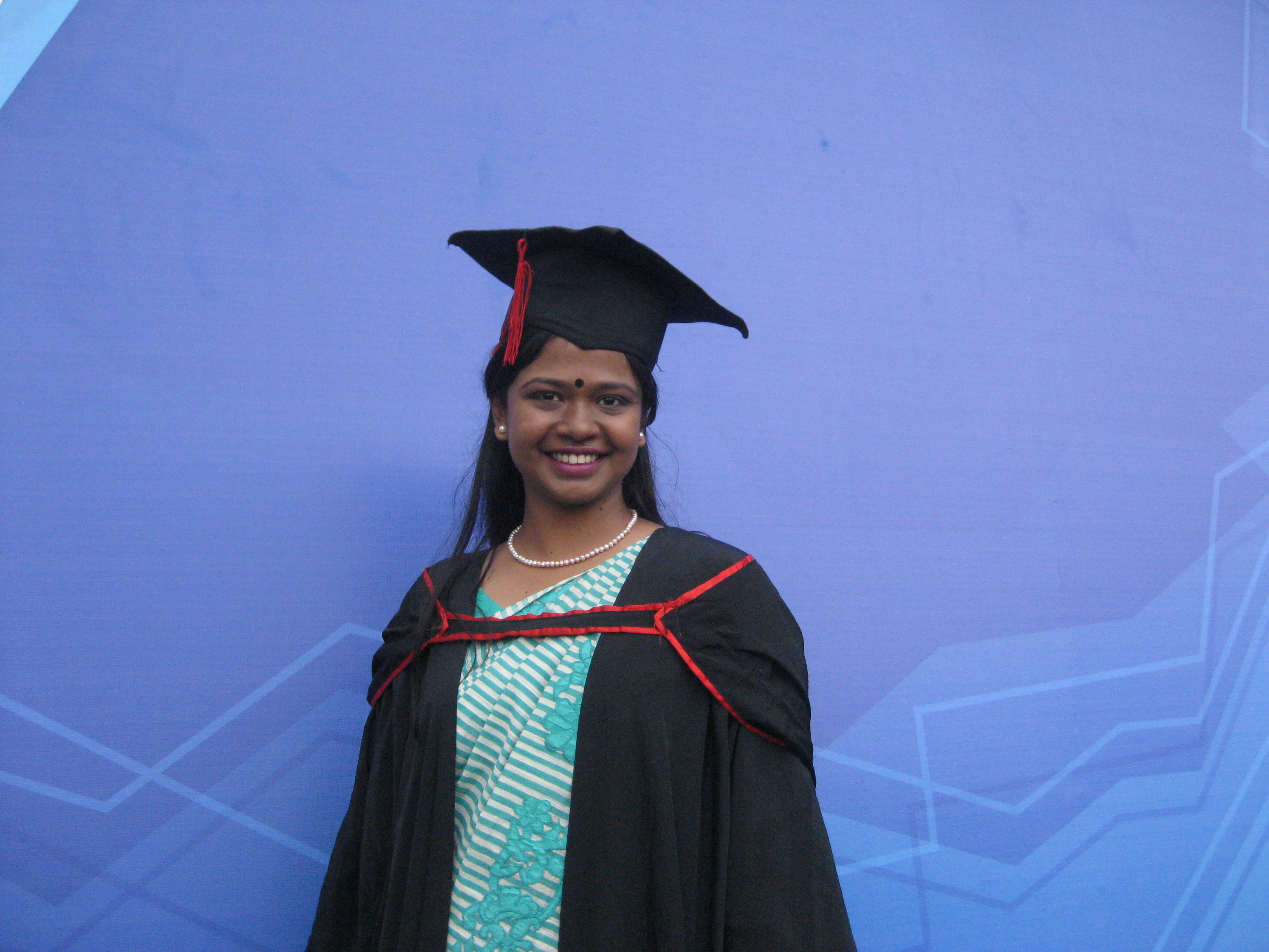 Academic Dress of Social science Graduate Students of University of Dhaka used for 48th convocation worn by Afifa Afrin